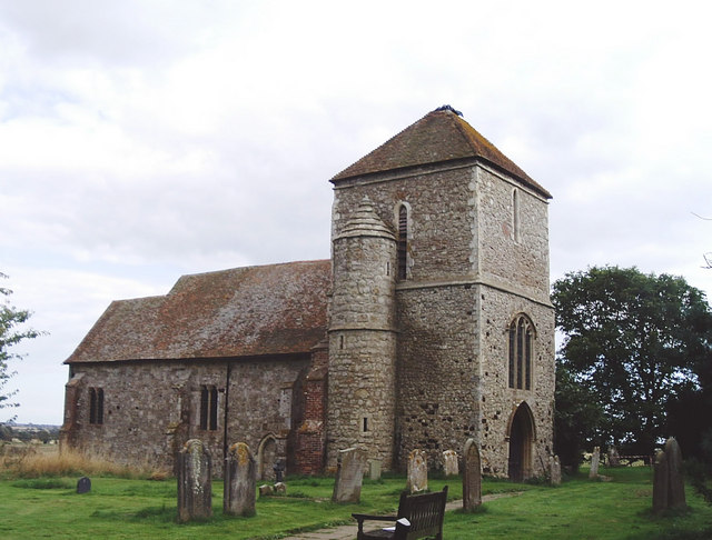 St Mary's parish church, Kenardington, Kent, seen from the northwest.Most of the masonry is either Hythe Beds limestone (Kentish Rag) or Ashdown sandstone (from the Hastings area), but the darker blocks seen in the tower are ferruginously-cemented sandy gravels.